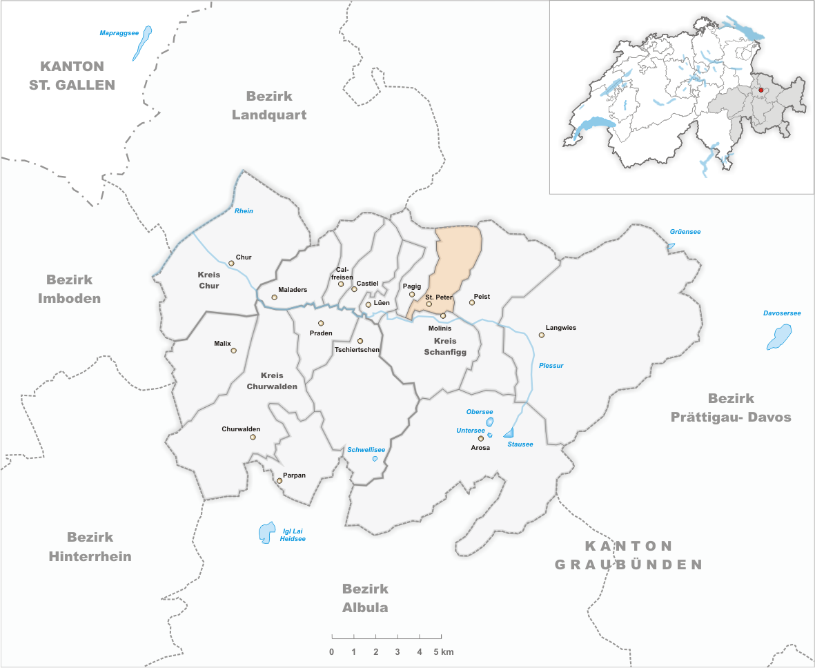 Municipality St. Peter